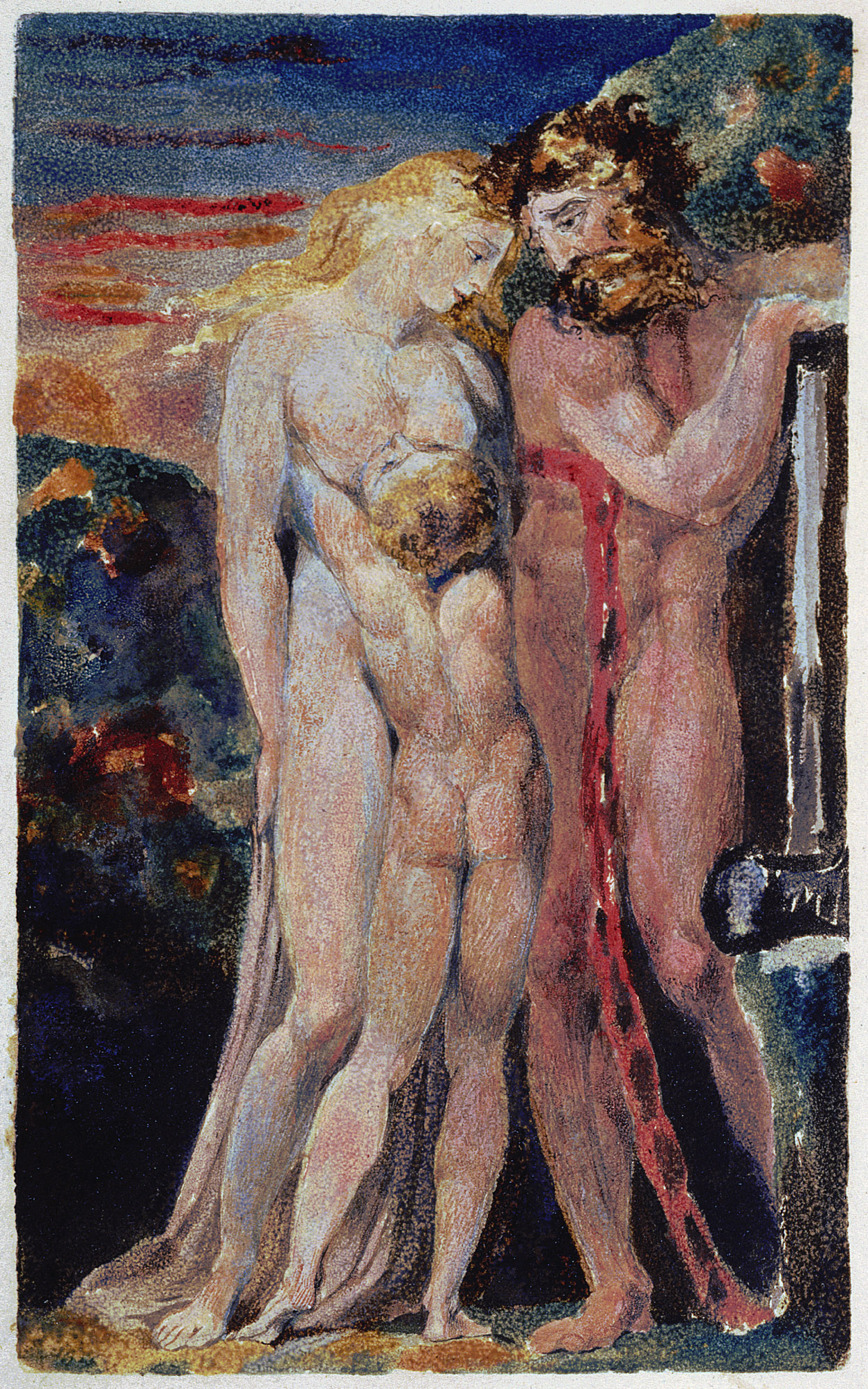 A Large Book of Designs, Copy A, object 2 The First Book of Urizen plate 21